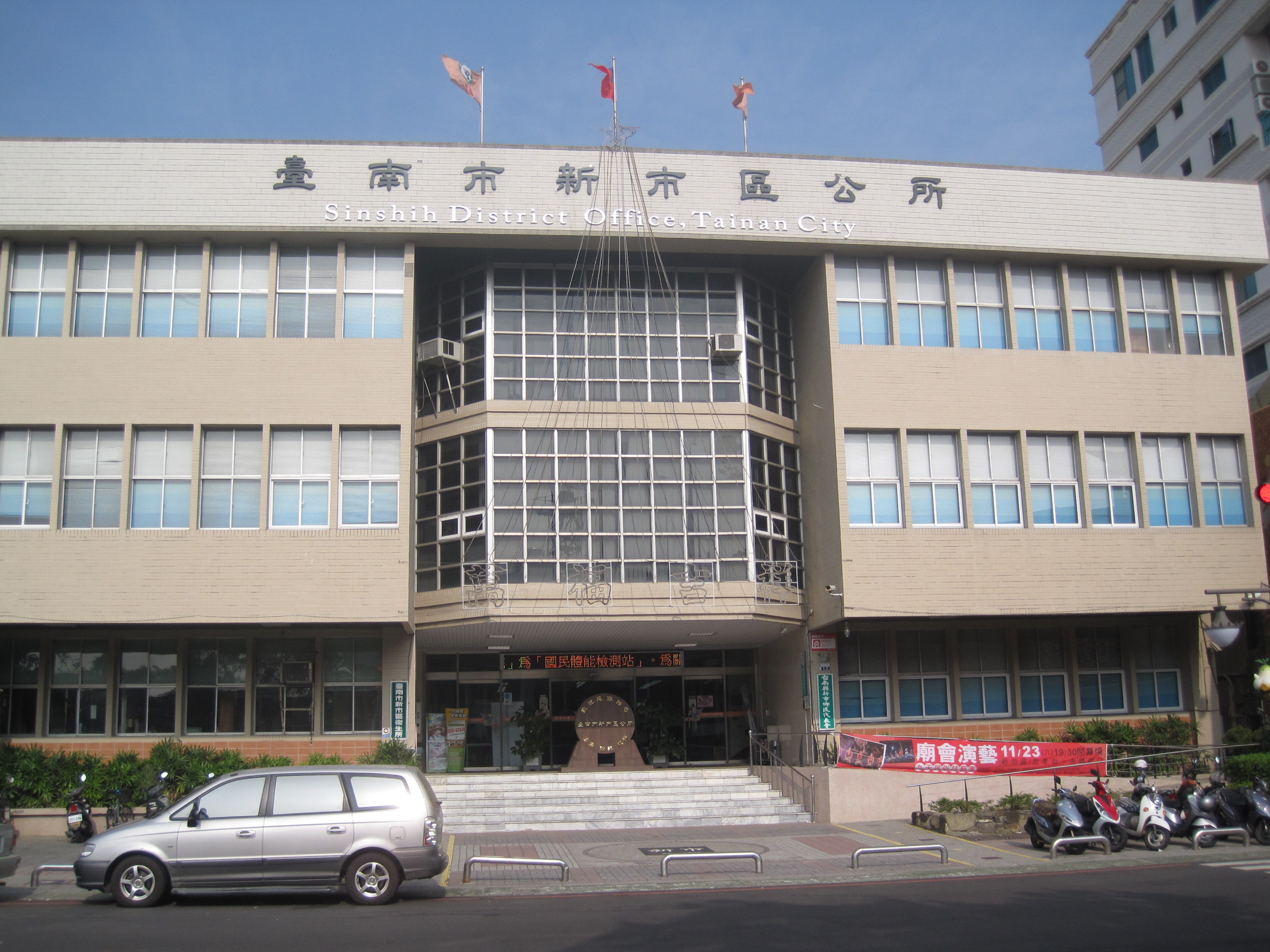 Sinshih District Office, No. 12, Jhongsing Street, Sinshih District, Tainan City 744, Taiwan, completed in March 1984